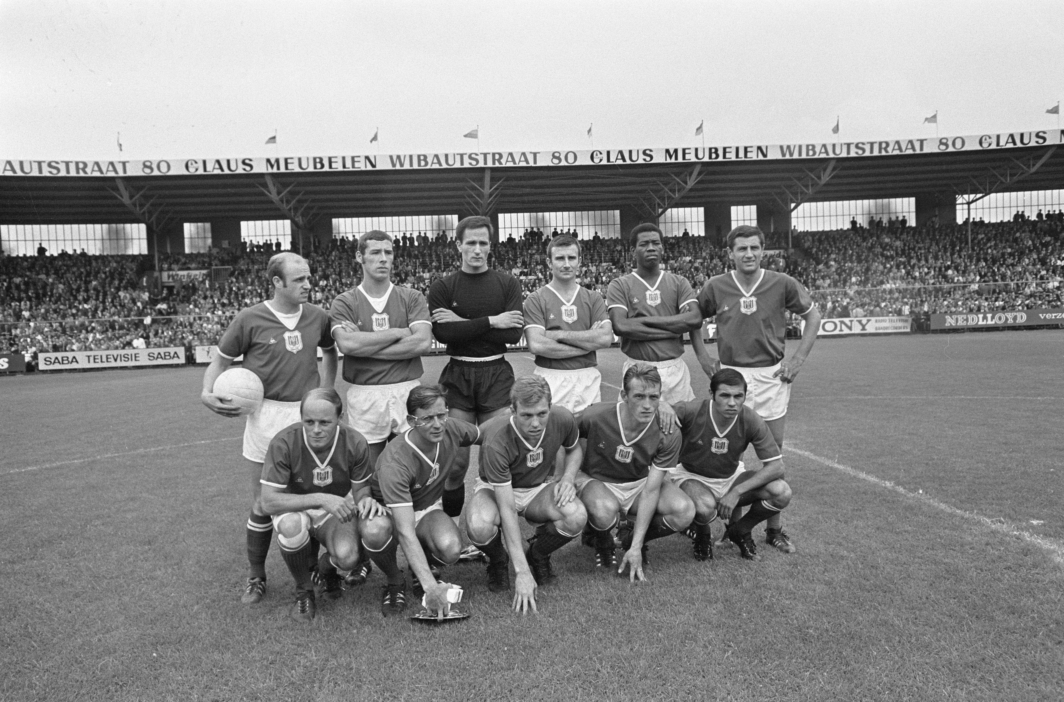 Team photo of RSC Anderlecht (1967). Pictured above, from left to right: Georges Heylens, Jean Plaskie, Zdenko Vukasovic, Jean Cornelis, Julien Kialunda, Pierre Hanon. Pictured below, from left to right: Gerard Bergholtz, Jef Jurion, Jan Mulder, Paul Van Himst, Wilfried Puis.